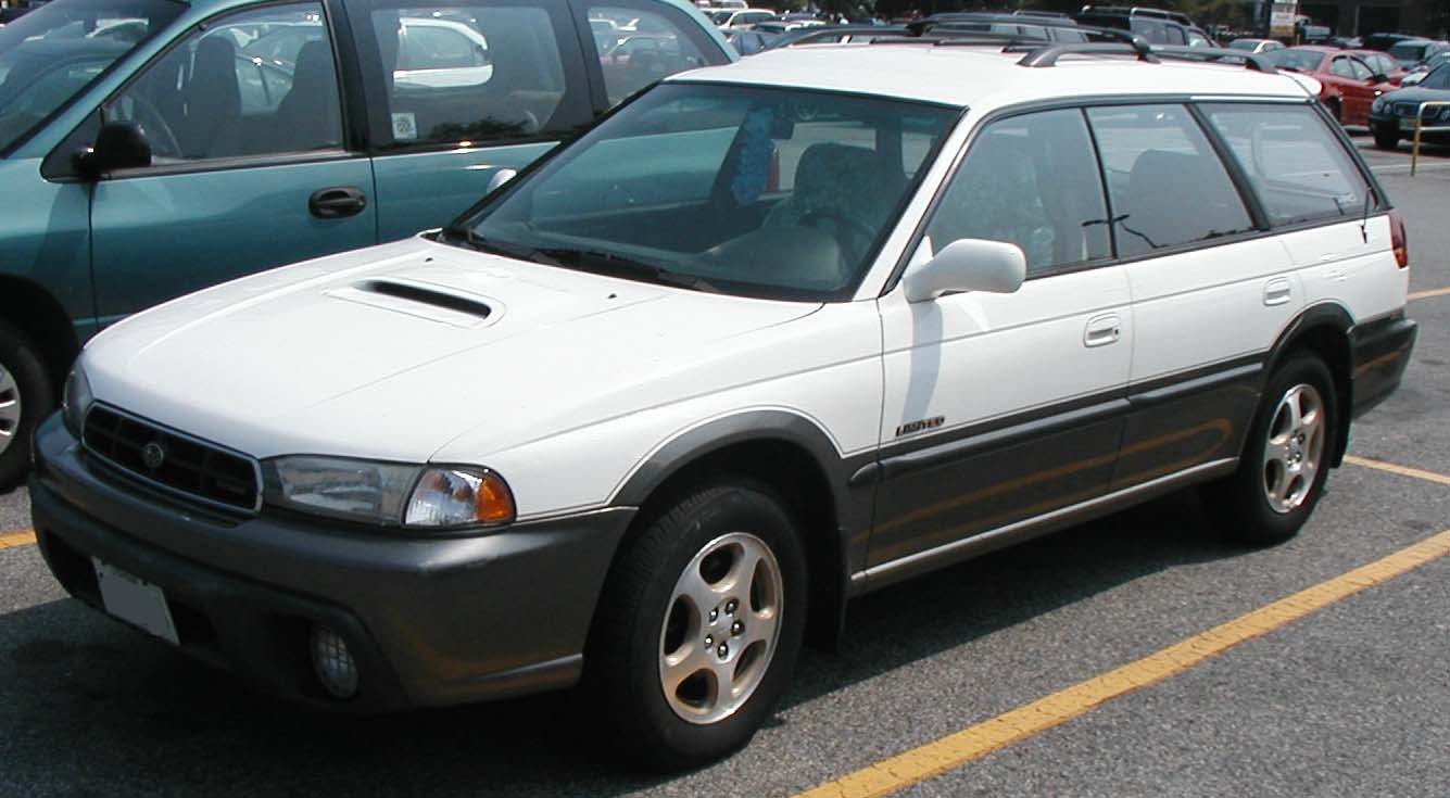 1996-1999 Subaru Outback photographed in USA.